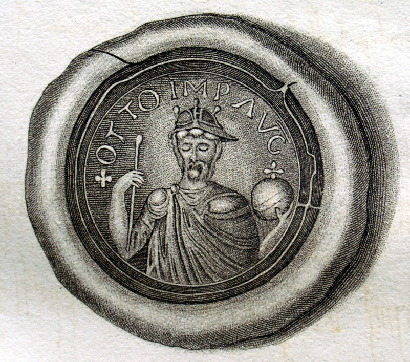 Facsimile seal of Otto I.